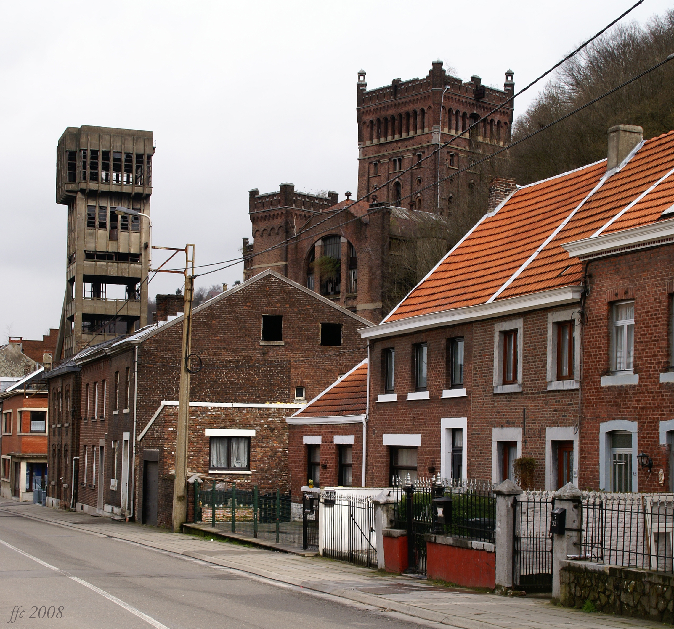 Cheratte (Belgium) The former Hasard de Cheratte coal mine: number 3 shaft winding-tower and Malakow tower (number 1 shaft) Hullera del Hasard edifici central amb bastida o “Bellefleur” Charbonnage du Hasard - “Bellefleur” Hoofdgebouw voormalige steenkolenmijn du Hasard